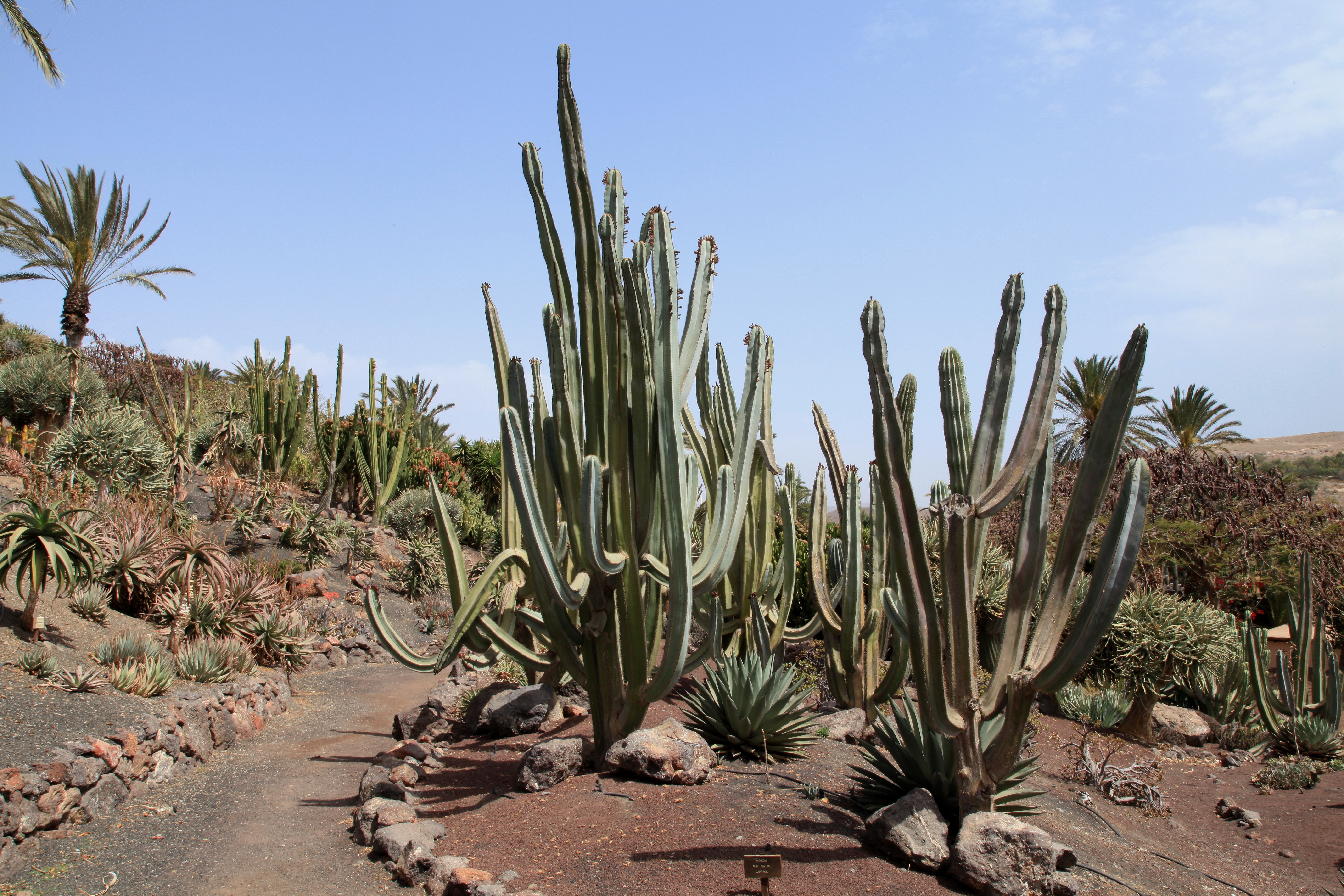 Pachycereus marginatus in the Oasis Park in La Lajita, Pájara, Fuerteventura, Canary Islands